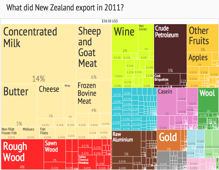 New Zealand Export Treemap from MIT Harvard Atlas of Economic Complexity